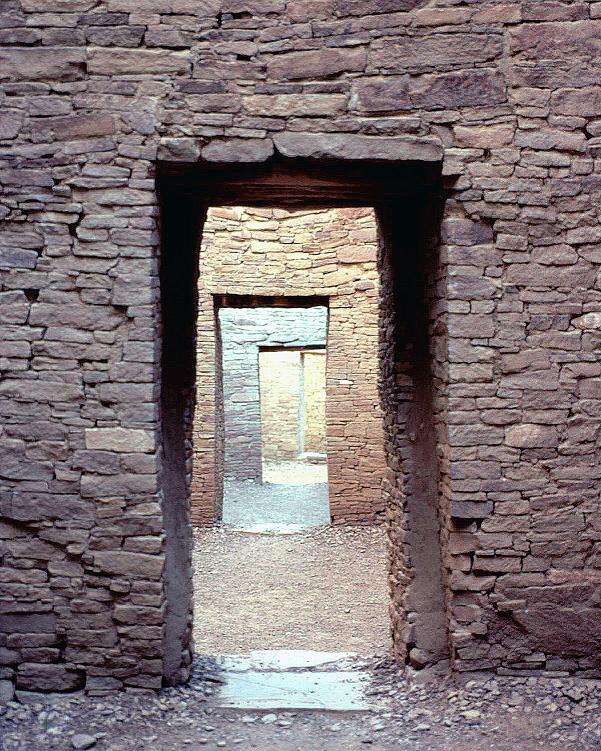 An image of the ruins of Pueblo Bonito in Chaco Canyon (New Mexico, United States); shown is a series of doorways.